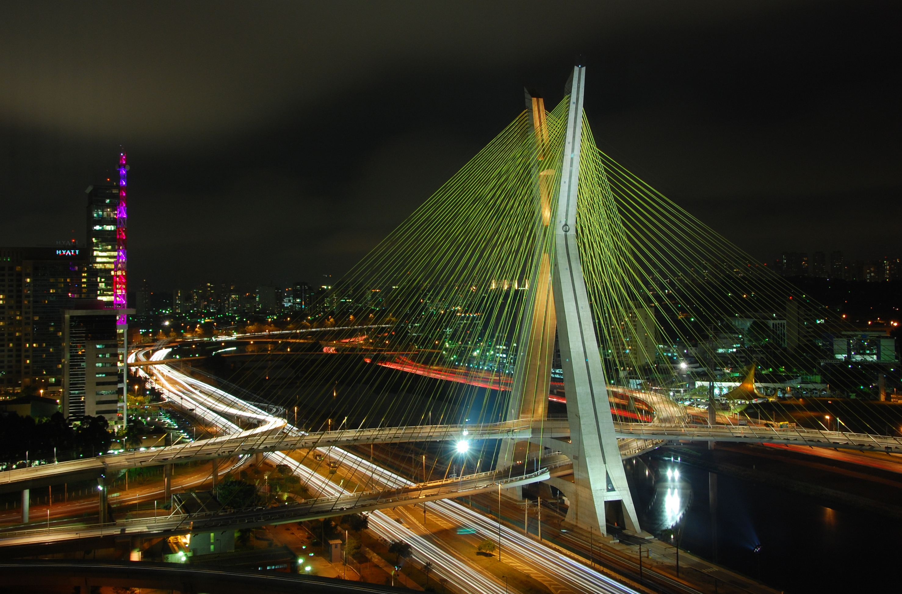 The Octavio Frias de Oliveira bridge, São Paulo - Brazil. View from the North Tower of the CENU complex (Northeast of the bridge)